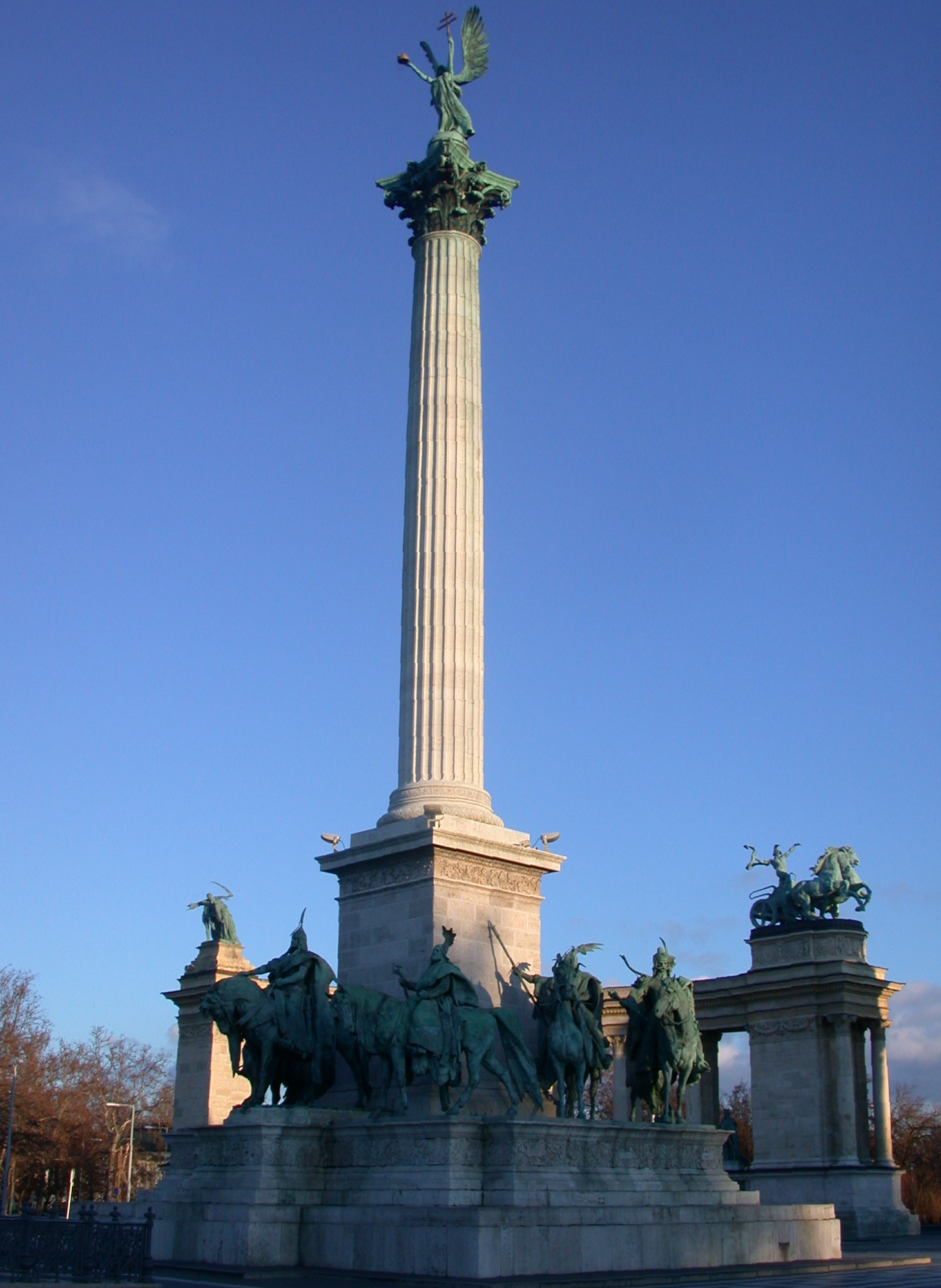 The Millennium Monument in Hősök tere (Heroes' Square) in Budapest, Hungary.